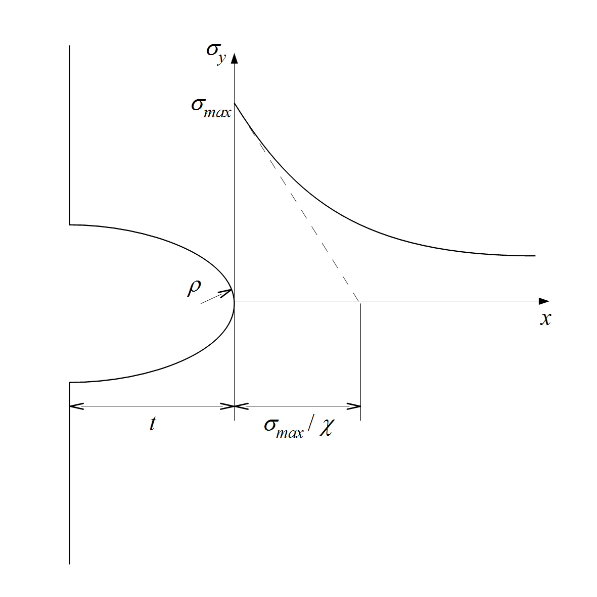 diagram of a stress distribution at a notch root